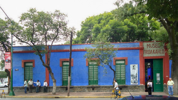 Museo Frida Kahlo in the Casa Azul